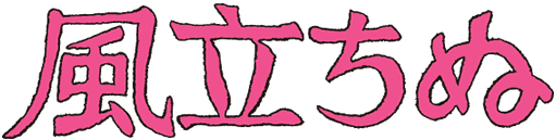 The Wind Rises logo